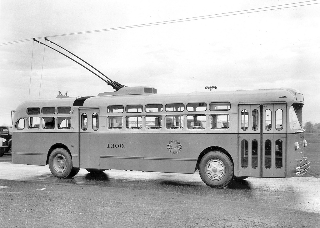 Cincinnati trolley bus #1300 was built in 1947 by Marmon-Herrington and was a model TC44.